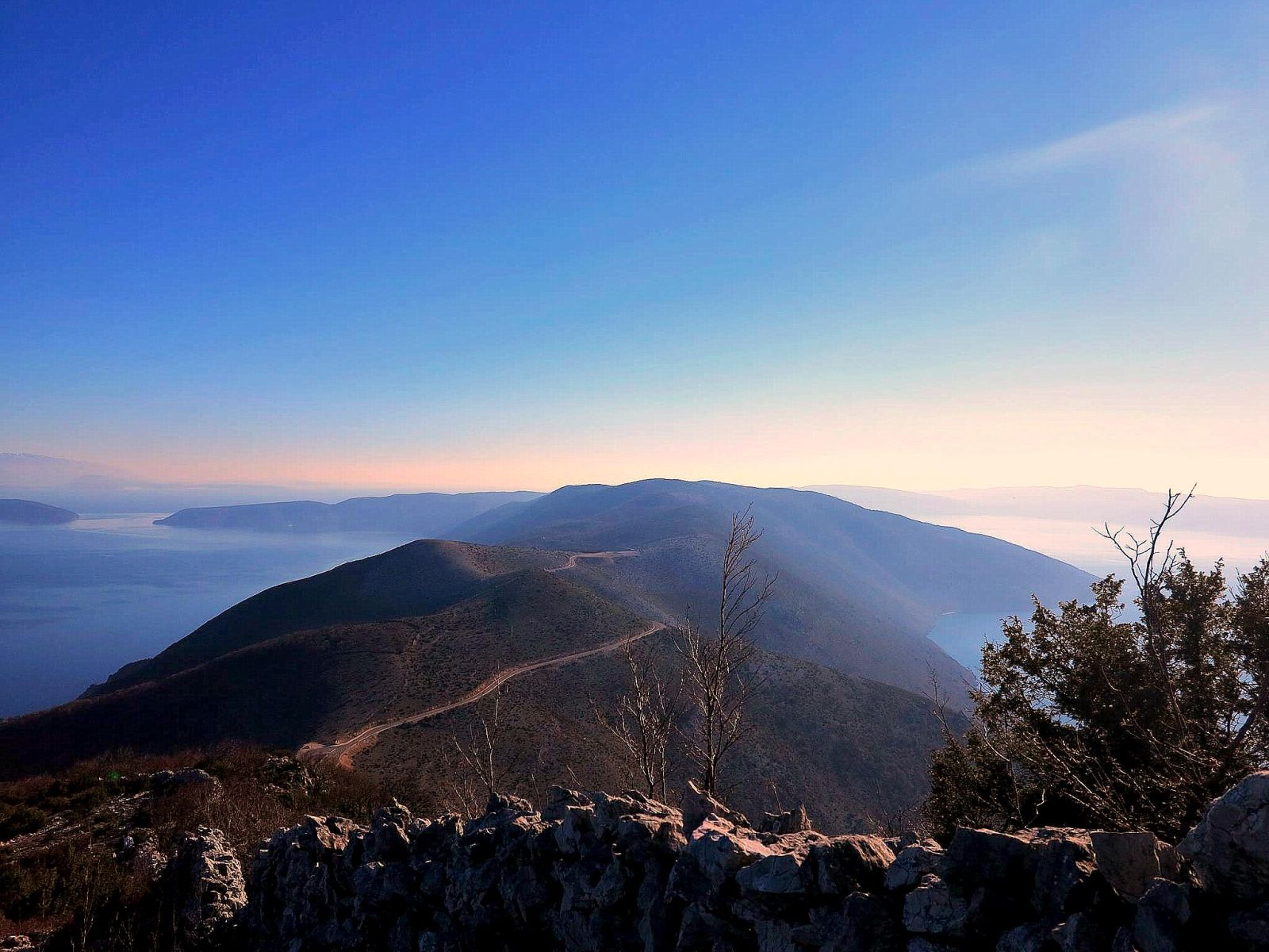 View from the top of the Sis - Island Cres